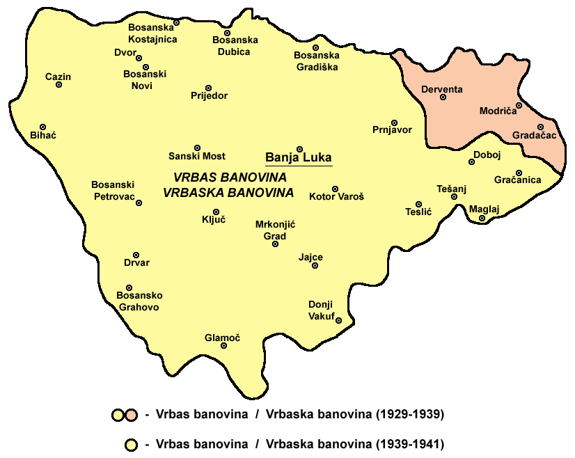 Vrbas banovina (province) of the Kingdom of Yugoslavia from 1929 to 1941.